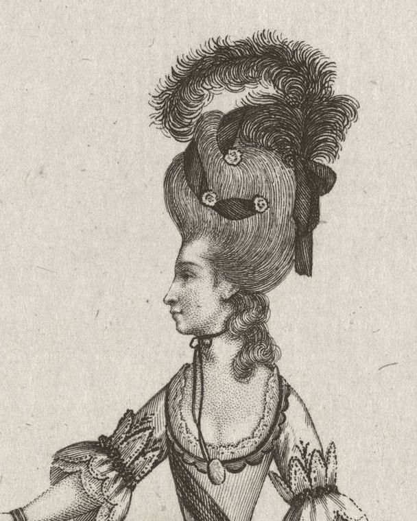 Print of actress and dancer Mary Bulkley (1747/8-1792) as Mrs Wilding in Gamesters, 1778. She was born Mary Wilford; her two married names were Bulkley and Barrisford. She was known professionally as Mrs Bulkley. Her biography is here.